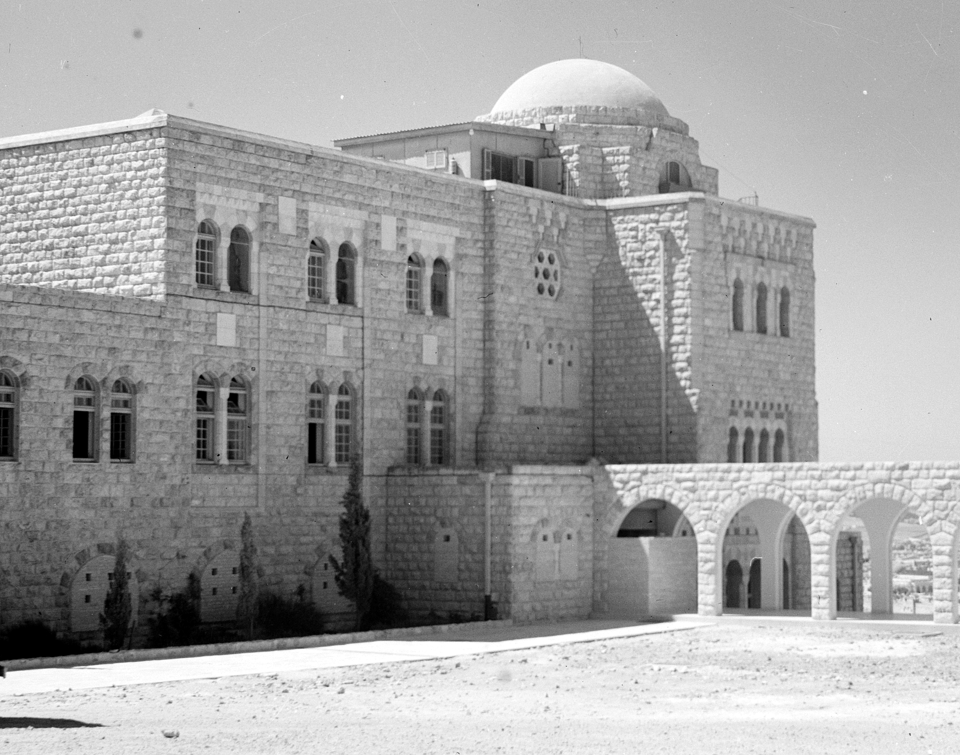 Hebrew University. Wolffsohn Library (left) and Rosenblum building of Judaic Studies (right), Mt. Scopus, Jerusalem original Information: TITLE: [Hebrew University. Wolffsohn Library (left) and Rosenblum building of Judaic Studies (right), Mt. Scopus, Jerusalem] CALL NUMBER: LC-M33- 80170-x[P&P] REPRODUCTION NUMBER: LC-DIG-matpc-13589 (digital file from original photo) RIGHTS INFORMATION: No known restrictions on publication. MEDIUM: 1 negative : safety film ; 4 x 5 in. CREATED/PUBLISHED: [approximately 1925 to 1946] NOTES: Taken either by the American Colony Photo Department or its successor, the Matson Photo Service. Title devised by Library staff. (Source: researcher N. Lavsky, 2007). Gift; Episcopal Home; 1978. FORMAT: Safety film negatives. PART OF: G. Eric and Edith Matson Photograph Collection REPOSITORY: Library of Congress Prints and Photographs Division Washington, D.C. 20540 USA DIGITAL ID: (digital file from original photo) matpc 13589 CONTROL #: mpc2005008217/PP